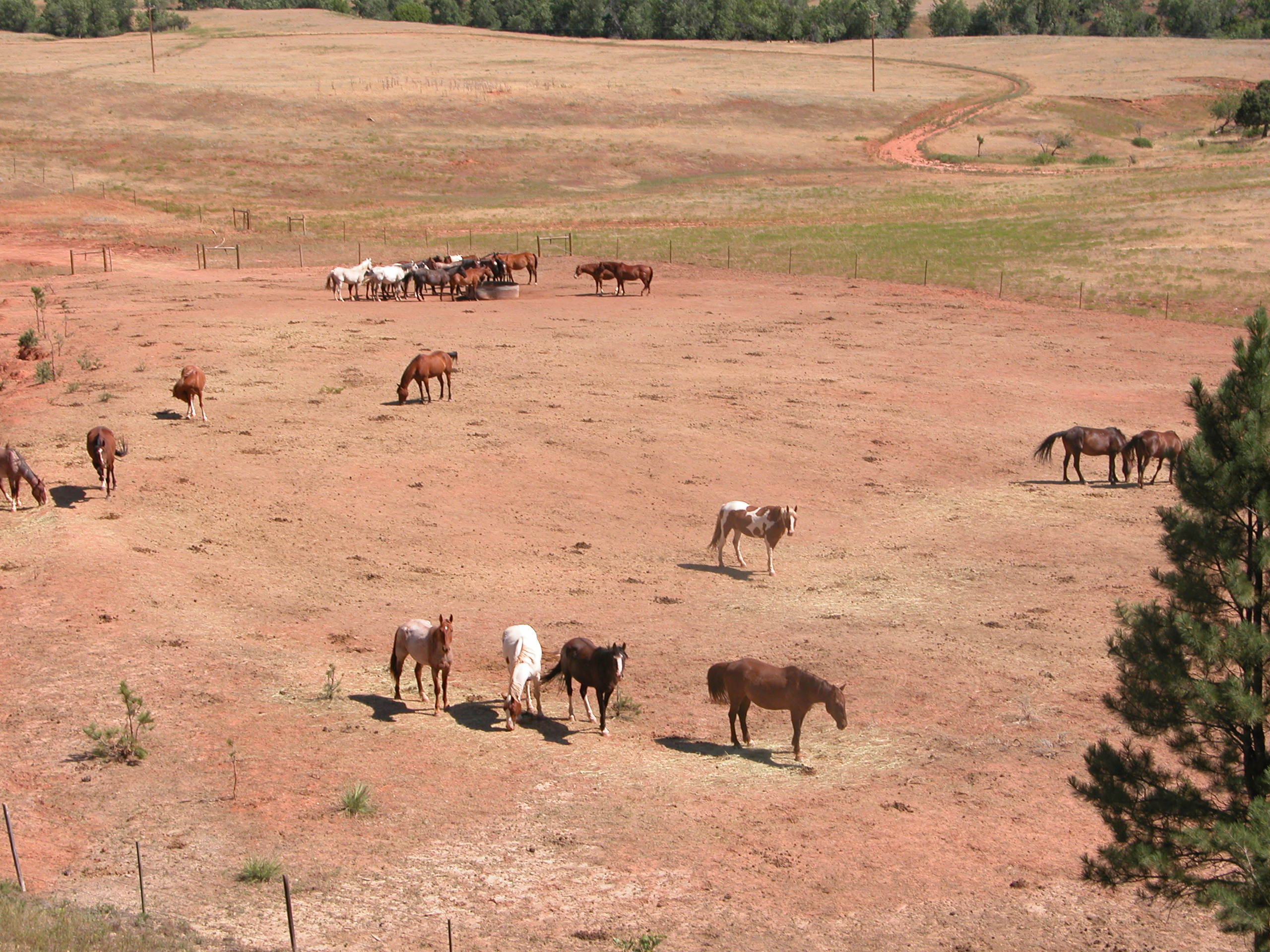 Multitude of horses in a pen in the vicinity of the Devils Tower National Monument in Wyoming.